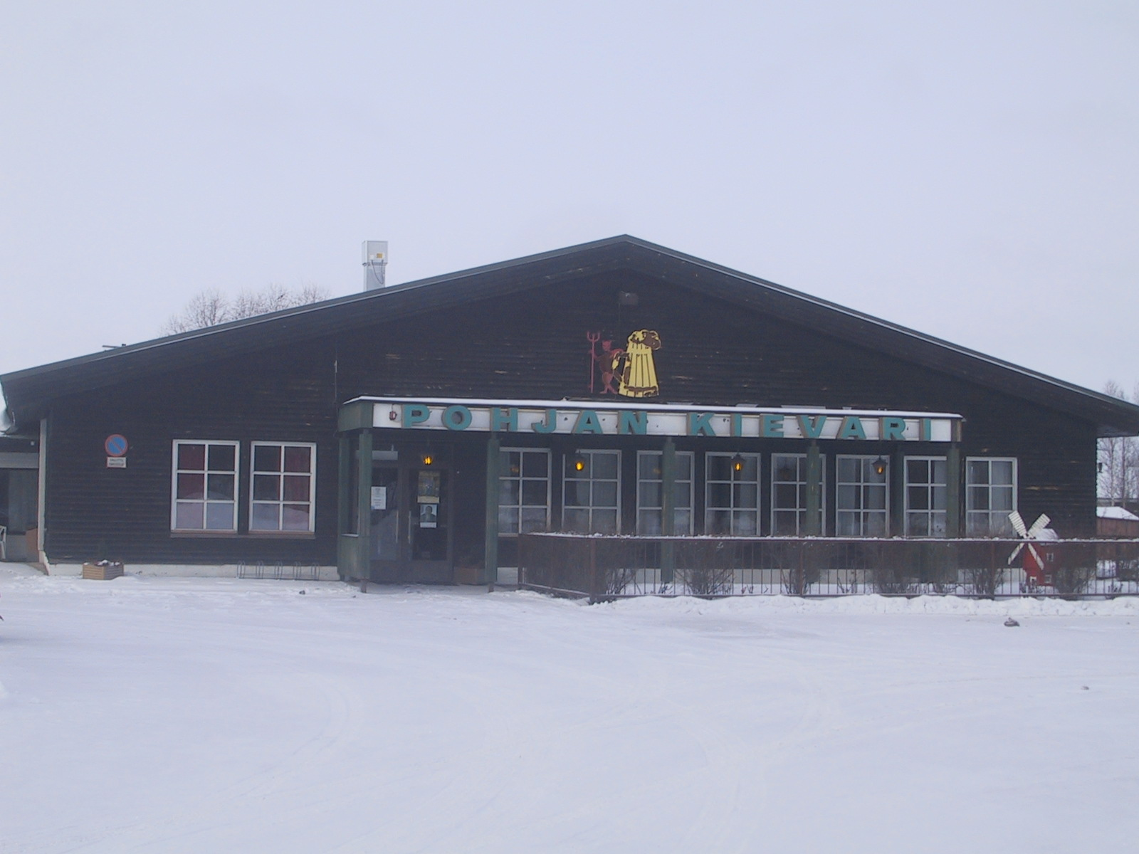 Pohjan Kievari restaurant, Kempele in Finland